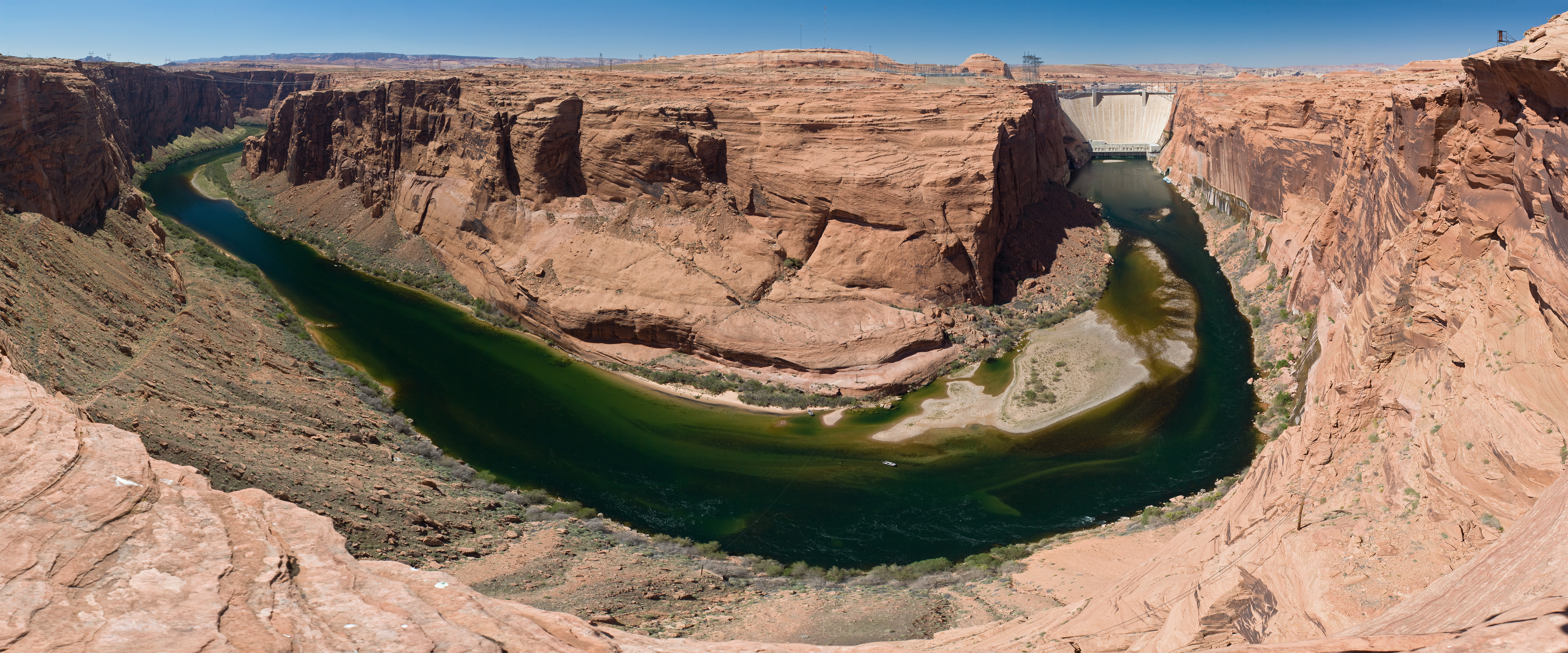 The Glen Canyon — with the Colorado River and Glen Canyon Dam. As seen from the Viewpoint near Page in northern Arizona. Panorama stitched from 2 rows with each 11 portrait format images. The camera was rotated using a Nodal Ninja [3] nodal point adapter which was mounted on a tripod. All photos were taken with the same exposure settings in RAW format and developed with exactly the same settings in a RAW converter. For stitching PTGUI [4] was used.